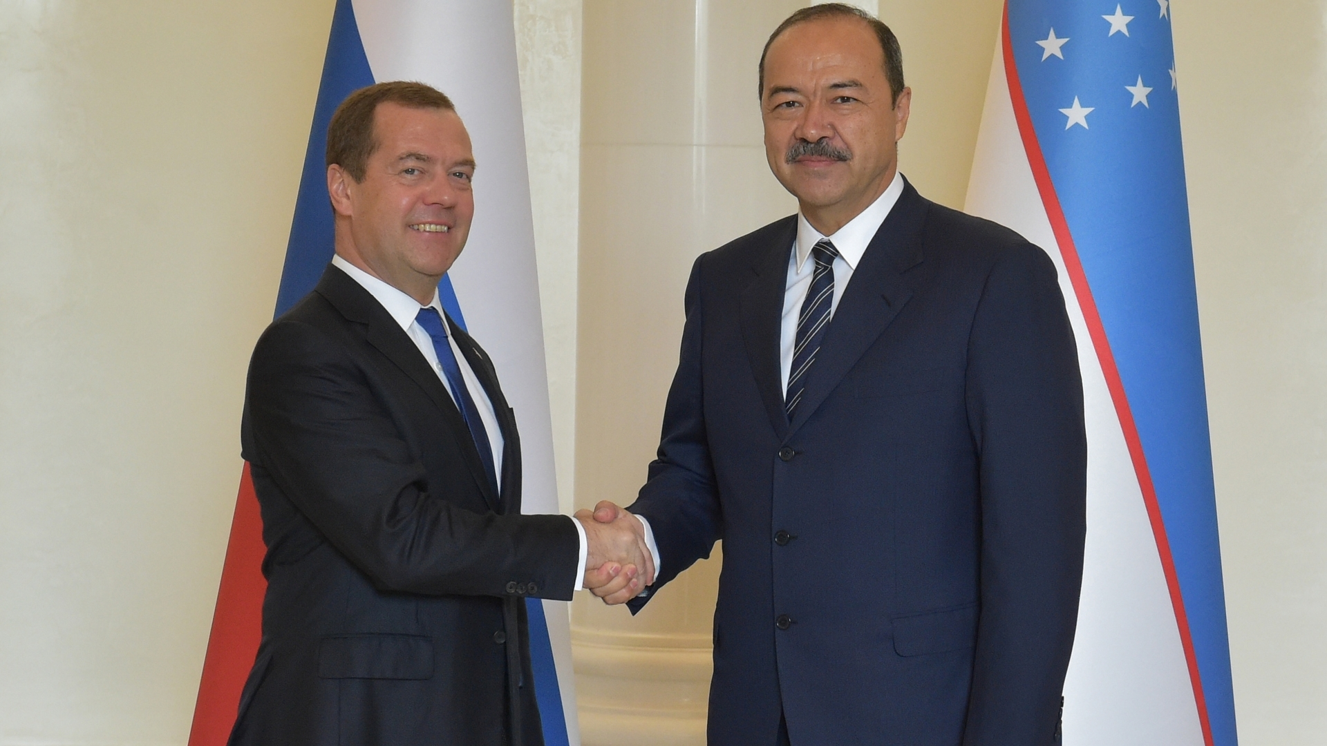 Dmitry Medvedev & Abdulla Aripov in Tashkent, 2 November 2017